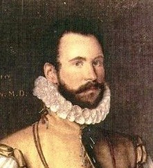 Sir Martin Frobisher by Cornelis Ketel, circa 1577. Frobisher wears a jerkin closed only at the neck over a peascod-bellied doublet.